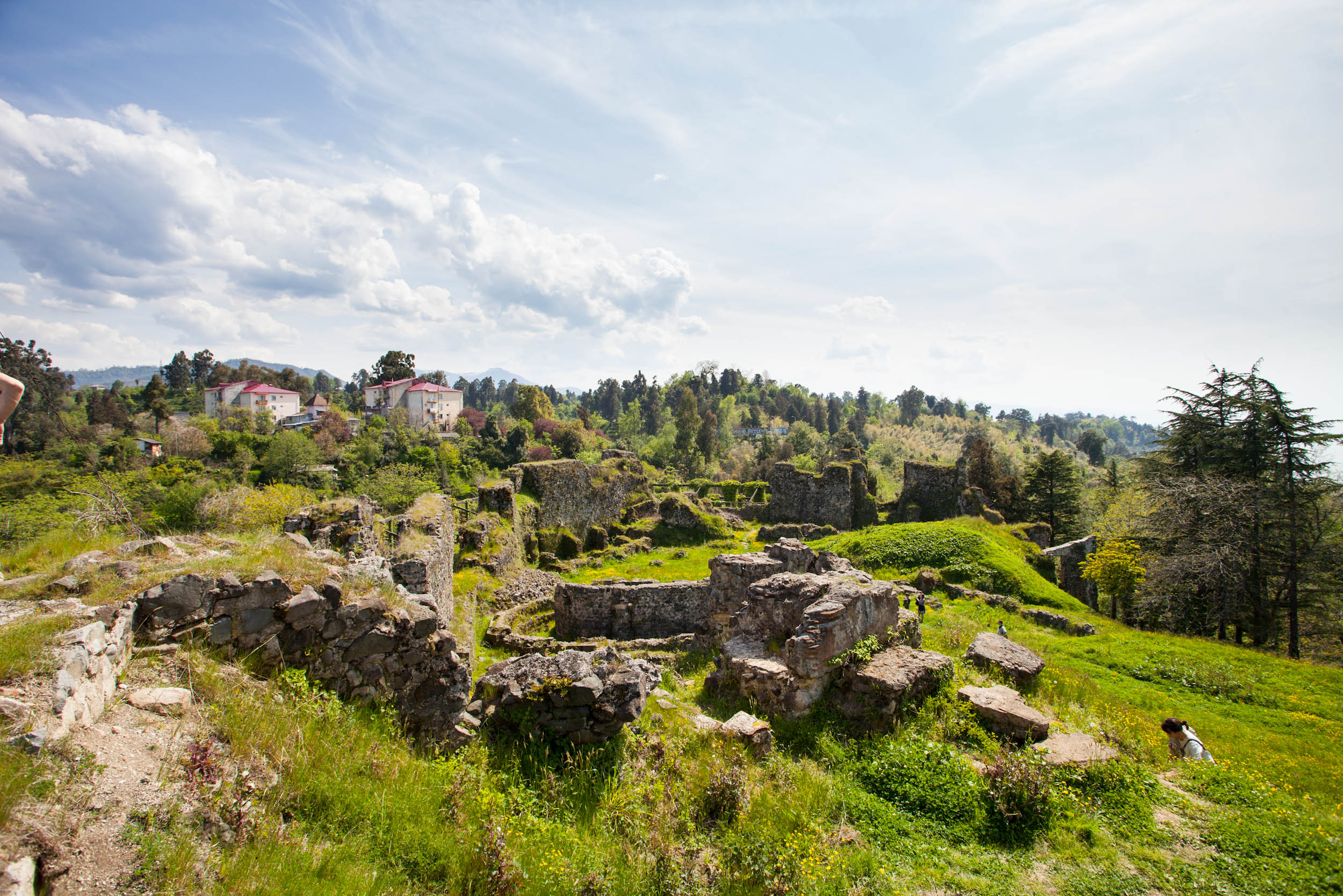 Petra Castle, Adjara, Georgia